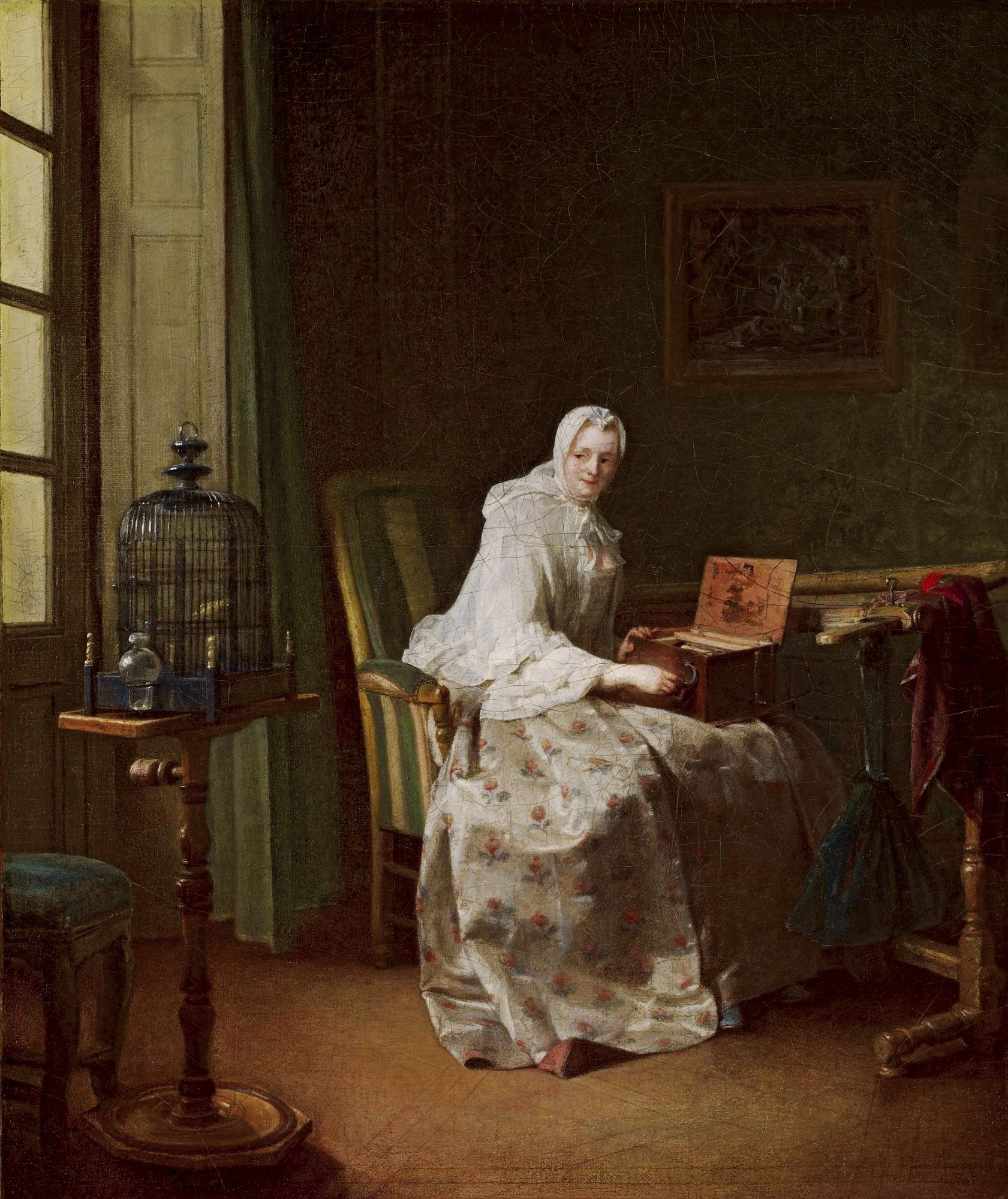 Painting 50.8 × 43.2 cm. Frick collection, accession number 1926.1.22.